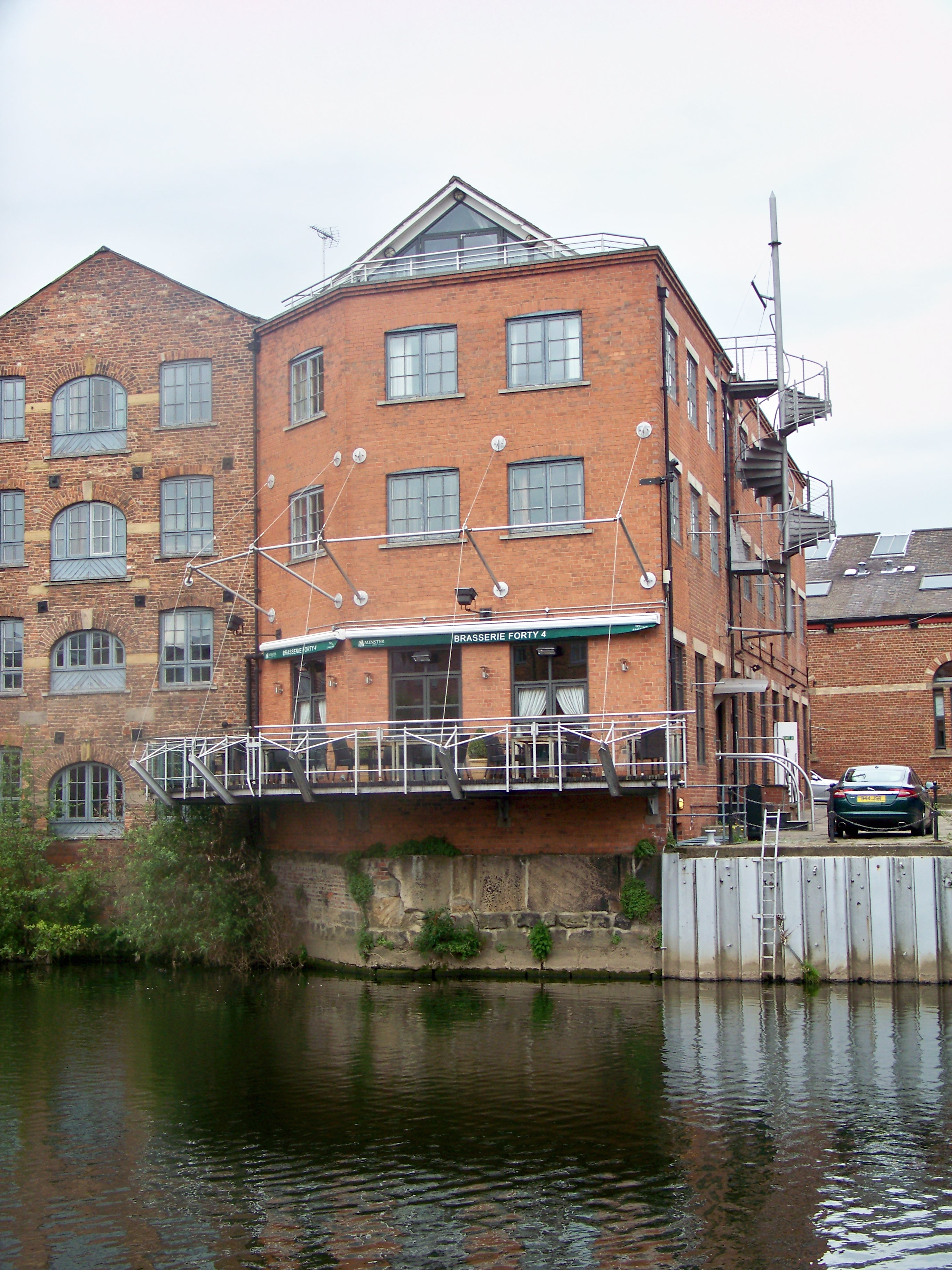 Brasserie Forty 4 from the south bank of the River Aire in Leeds, West Yorkshire. Taken on the afternoon of Monday the 10th of May 2010.